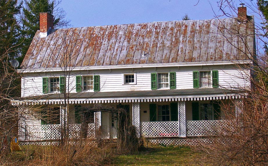 Benjamin Haines House. Photographed by Daniel Case 2007-04-22.